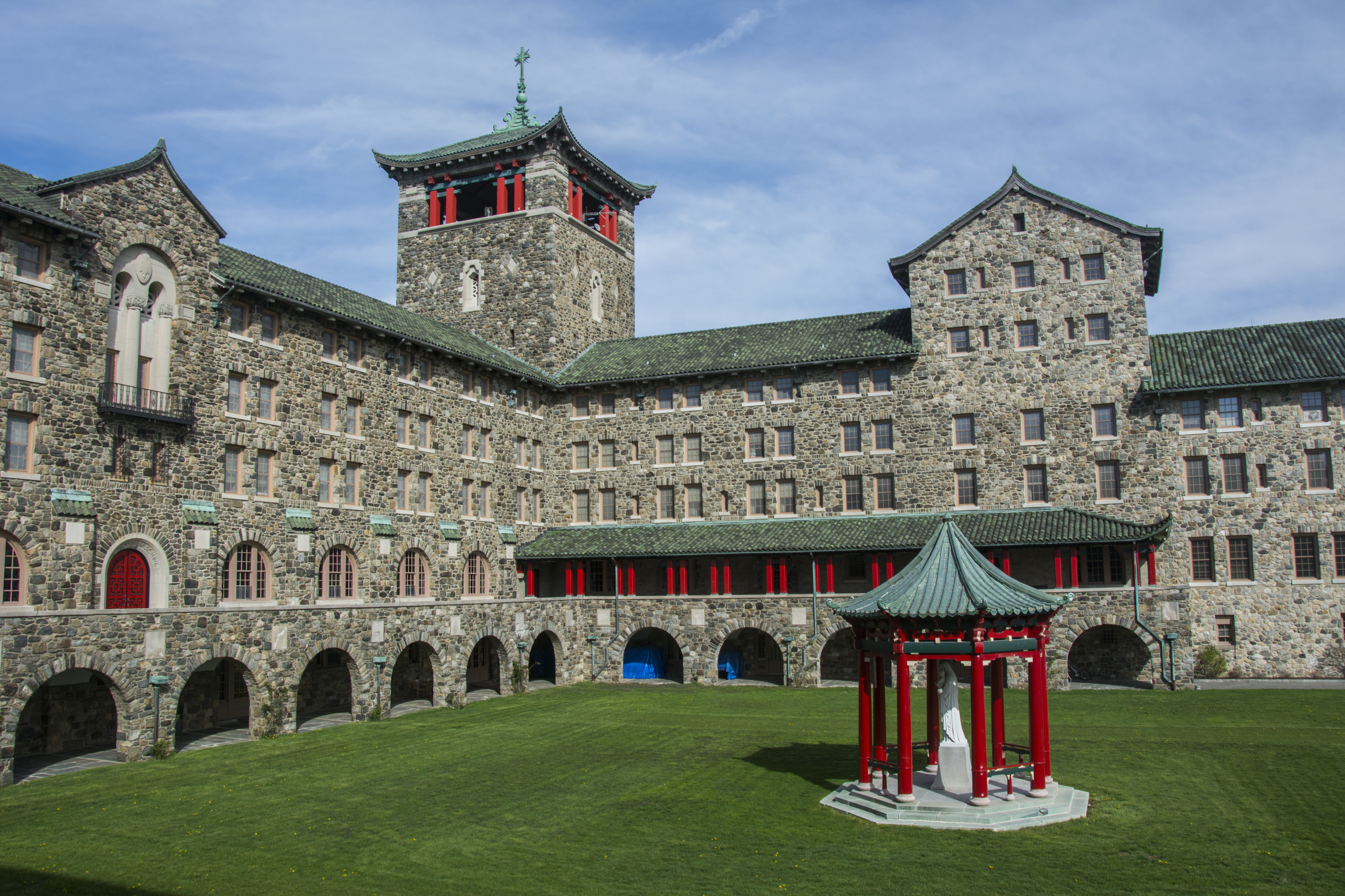 Maryknoll during a Briarcliff Manor-Scarborough Historical Society event.